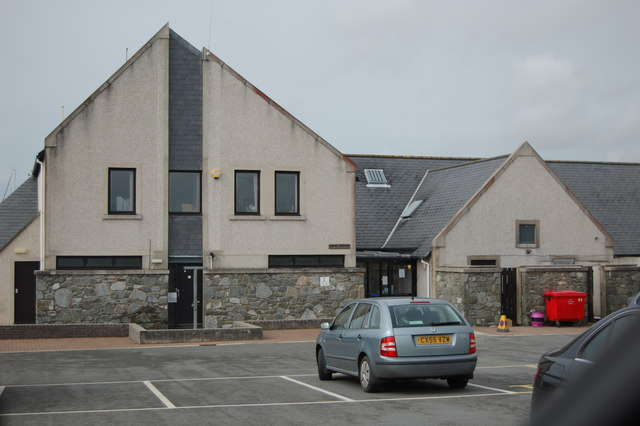 Pwllheli Sailing Club House